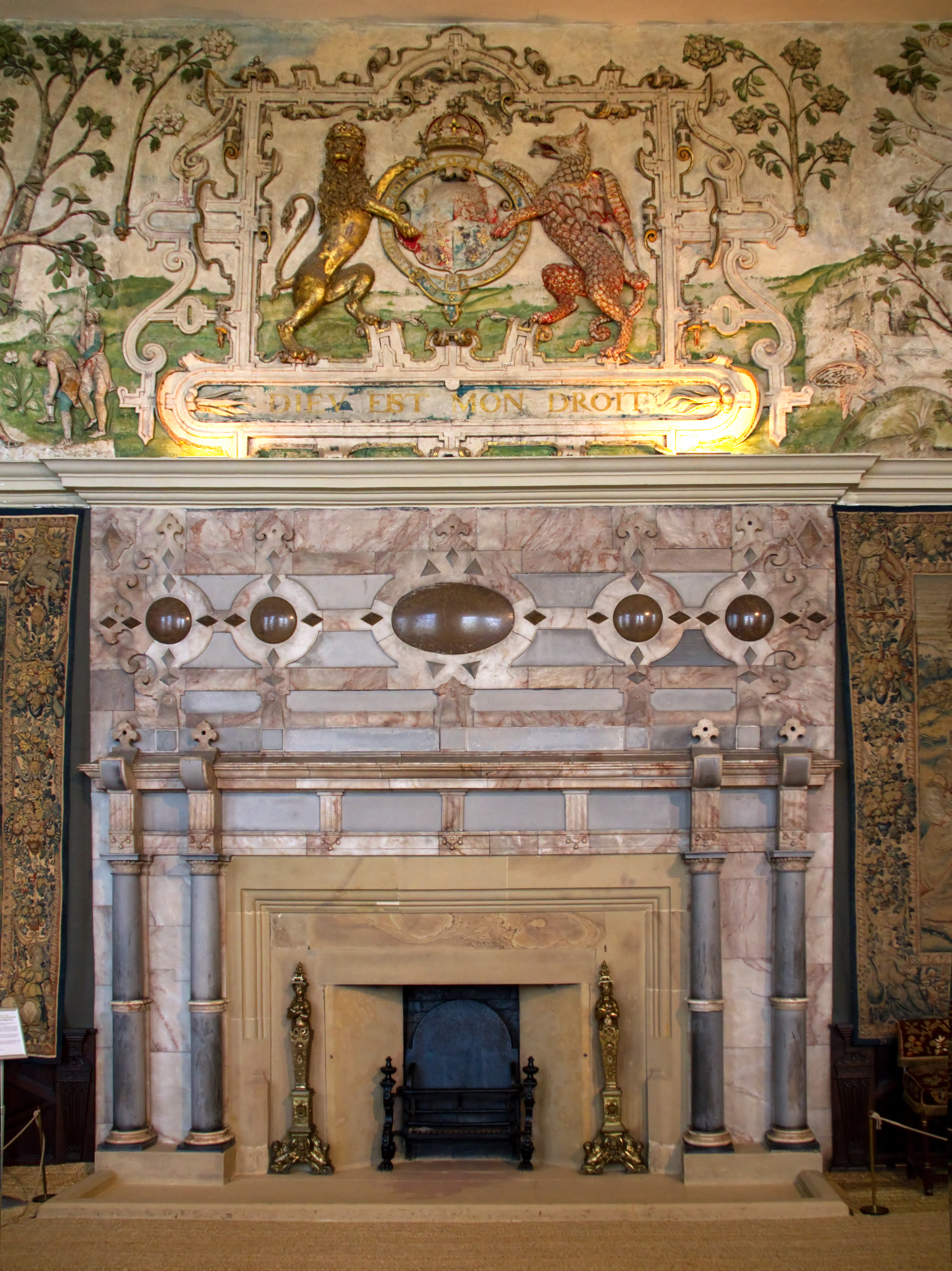 Hardwick Hall Fireplace. Hardwick Hall was built by Elizabeth Hardwick between 1590 and 1597, thus these are the arms of Queen Elizabeth I (1558-1603), as confirmed by the strapwork decoration fashionable during her reign. The royal motto seems to have been mis-spelt with an est for an et.